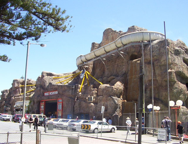 A (rather poor) photo of Magic Mountain, which was demolished in 2004.